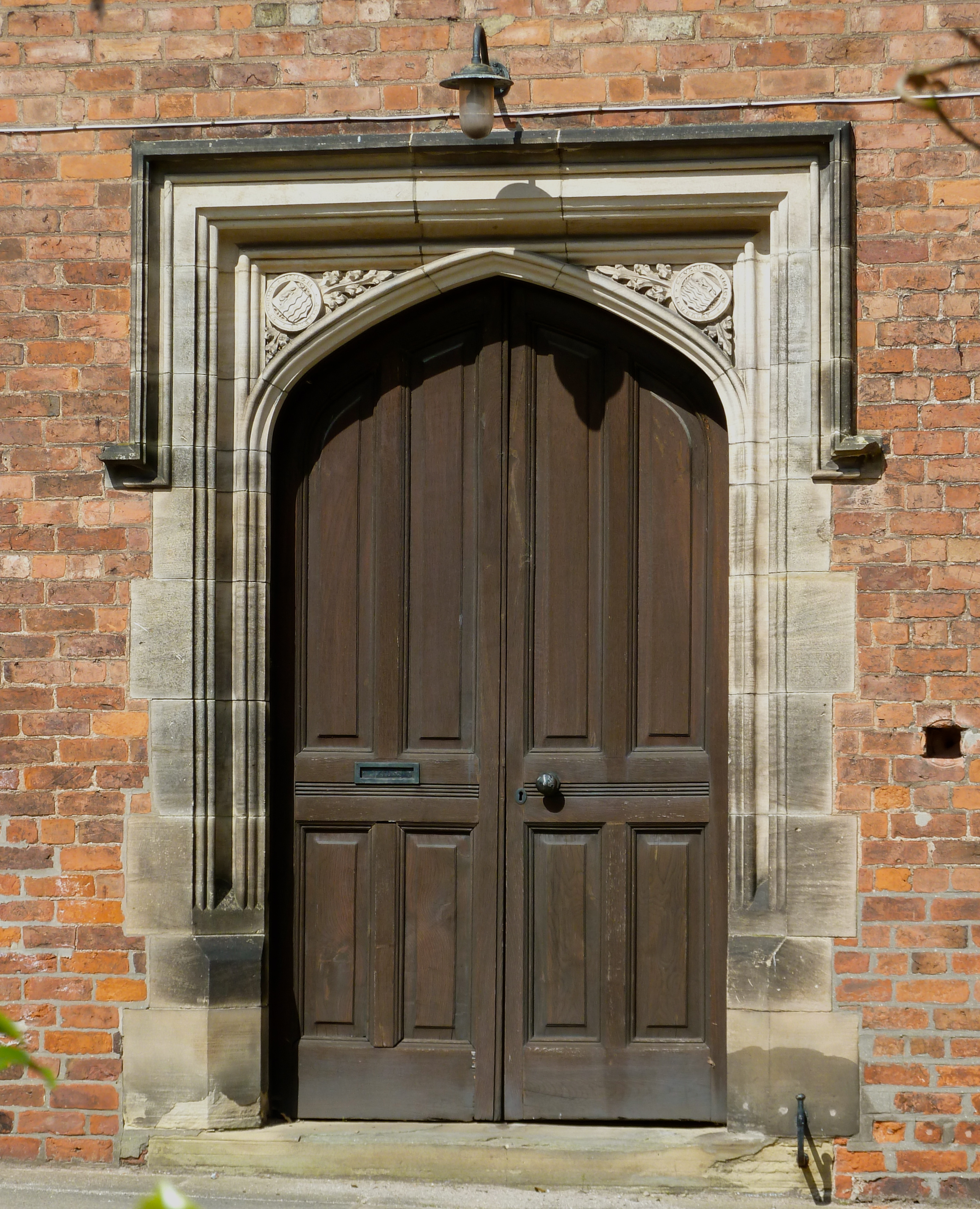 Beautiful old door at Beverley Westwood Hospital, Beverley, East Riding of Yorkshire, England.